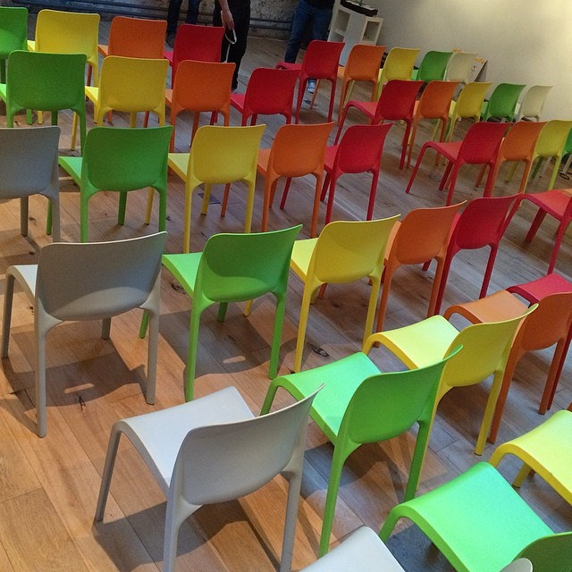 Colour coordination